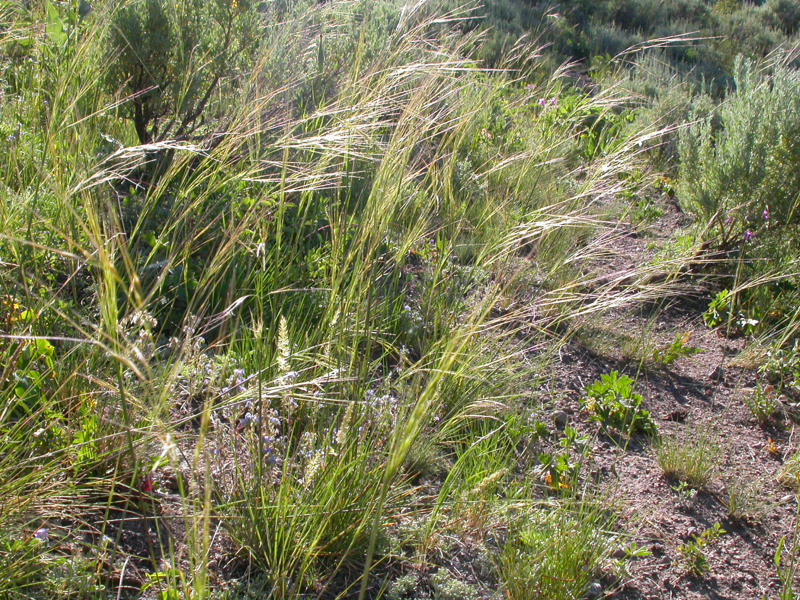 Stipa comata is common on south facing slopes along the road east of Mammoth Hot Springs.